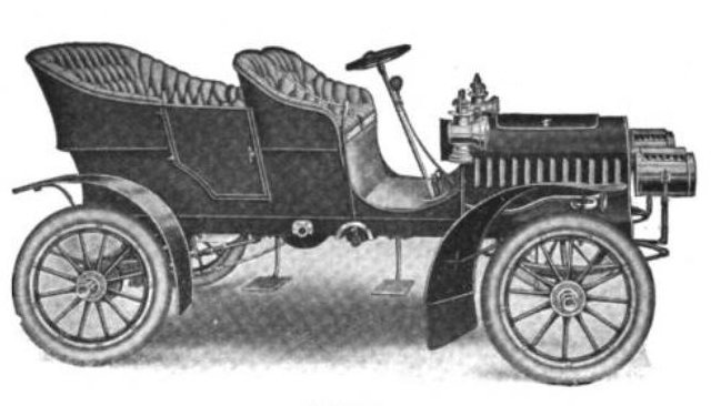 The photo is from an advertisement on page 36 in the April 1906 issue of Cycle and Automobile Trade Journal. The scan is from the Google Book archive. Title Automobile trade journal, Volume 10 Publisher Chilton Company, 1906 Original from the University of Michigan Digitized Oct 2, 2007